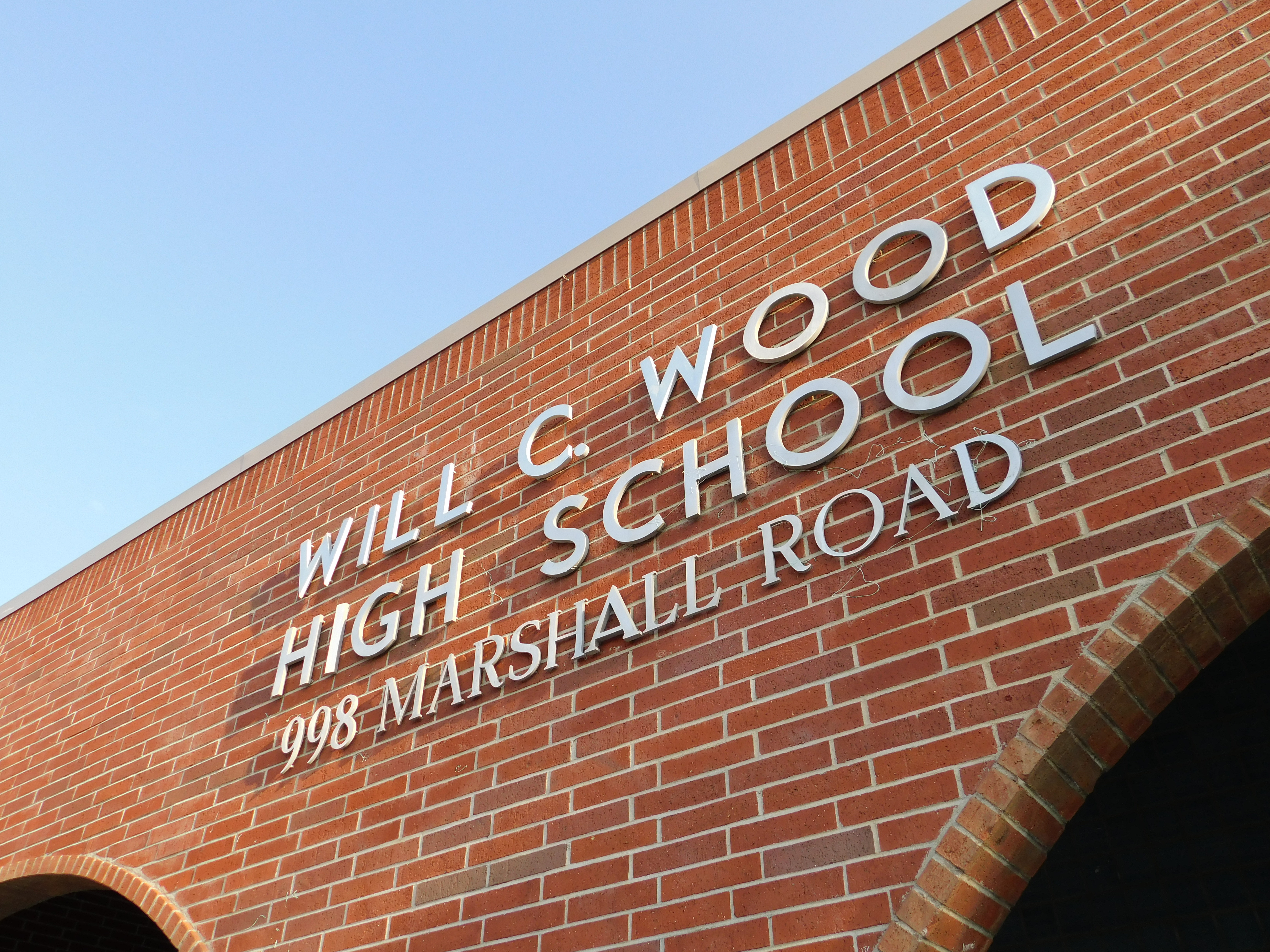 The front of the iconic brick arches that bear the school's name